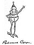 Brownie drawn and signed by Palmer Cox, public domain